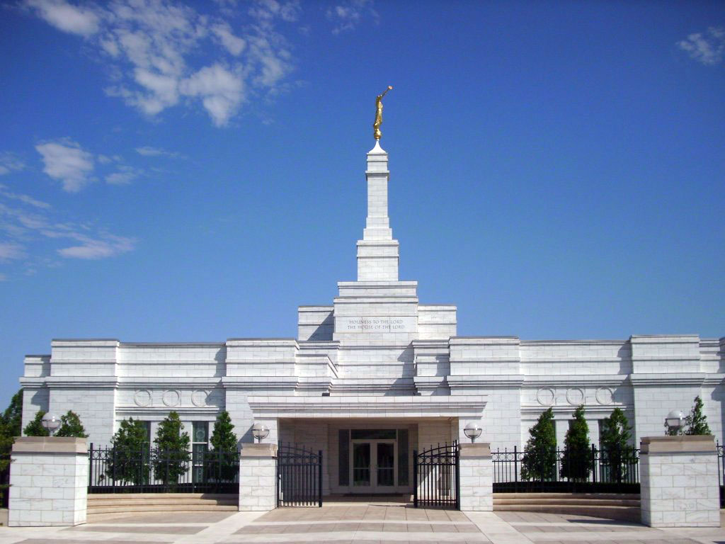 Oklahoma City Oklahoma Temple of The Church of Jesus Christ of Latter-day Saints DigitalCam (Polaroid) 8MP, 1024x768, dated 2008-06-04 at 10:14 a.m.